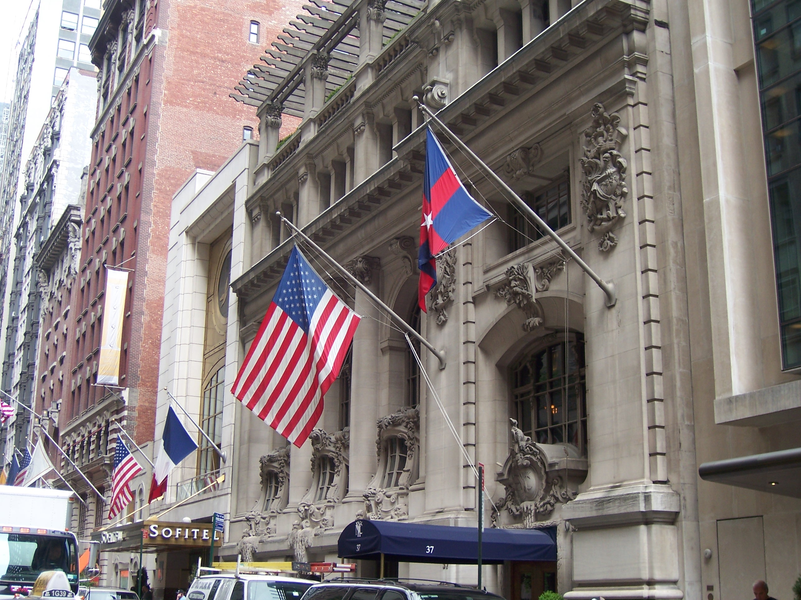 New York Yacht Club´s clubhouse in Manhattan